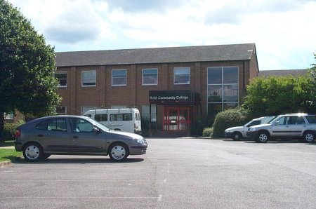 Ifield Community College. One of Crawley's comprehensive schools. Originally opened as a combined Grammar and Secondary Modern school it was demolished in 2005 following the re-building of the school on the same campus.